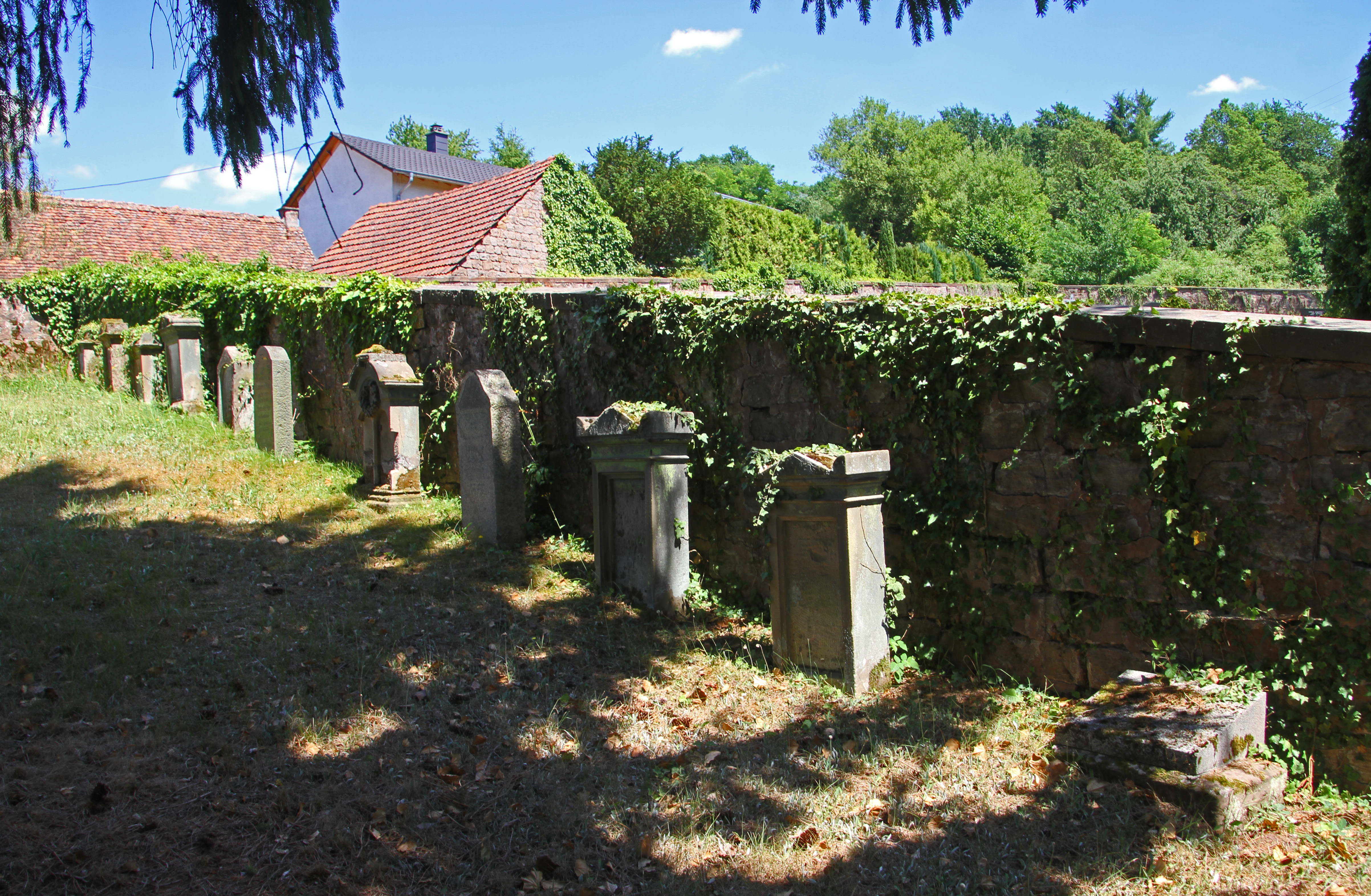 Jewish cemetery in Wallhalben, Rhineland-Palatinate.